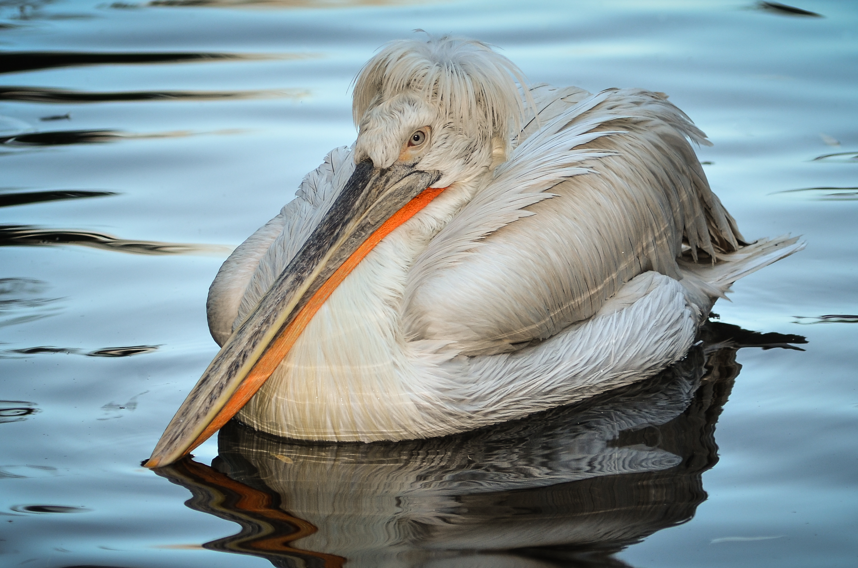 Dalmatian Pelican (Pelecanus crispus) on a fall afternoon at Weltvogelpark Walsrode (Walsrode Bird Park, Germany).